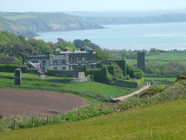 Dale Castle and Church. Taken looking almost due east.